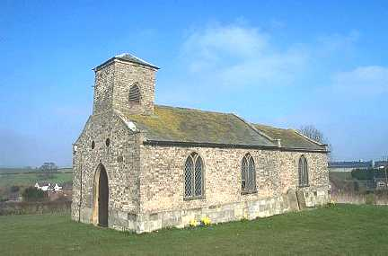 St Nicholas's Church Ruston Parva, East Riding of Yorkshire, England.This Church is to the north of centre of the O/S grid it occupies.